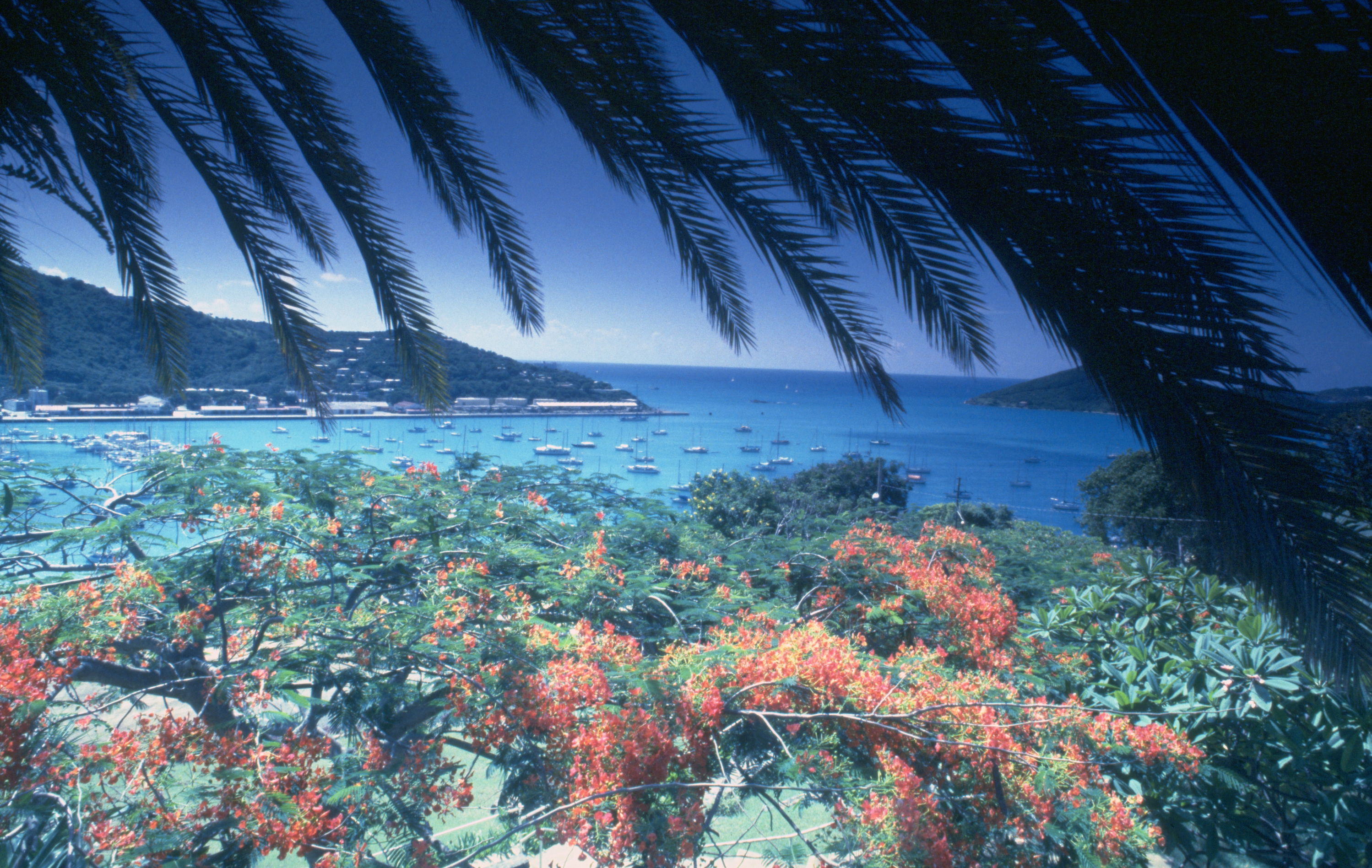 Analog photograph of the harbor at Charlotte Amalie in St. Thomas Bay, seen from Bluebeard Hill Street. On St. Thomas island, United States Virgin Islands.